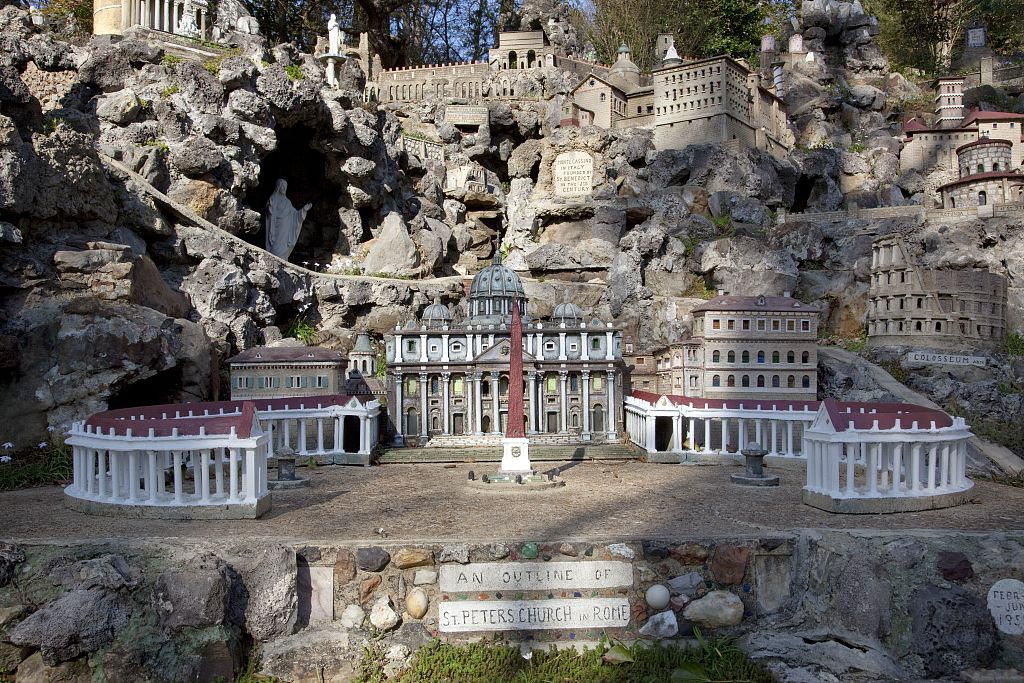 St. Peters Church in Rome, Ave Maria Grotto, Cullman (Cullman County, Alabama) There are 117 other photographs of the Ave Maria Grotto in the Highsmith Collection. All are public domain. Reproduction Number: LC-DIG-highsm-06914 (original digital file) Call Number: LC-DIG-highsm- 06914 (ONLINE) [P&P] This work is from the Carol M. Highsmith Archive collection at the Library of Congress. According to the library, there are no known copyright restrictions on the use of this work.Carol M. Highsmith has stipulated that her photographs are in the public domain. Photographs of sculpture or other works of art may be restricted by the copyright of the artist. Object location34° 10′ 28″ N, 86° 48′ 58″ W